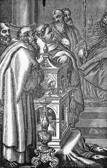 water-clocks that Harun al-Rashid sent to the Emperor Charlemagne in 807 AD